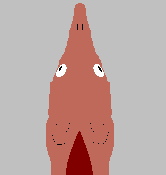 Lazurussuchus dvoraki, a Choristodere from the Miocene.